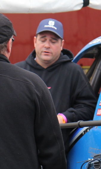 Jarit Johnson being interviewed at the Off-Road World Championship Weekend at Crandon International Off-Road Raceway. He is a new off-road driver and the brother of NASCAR champion Jimmie Johnson. He has made a few NASCAR starts too.